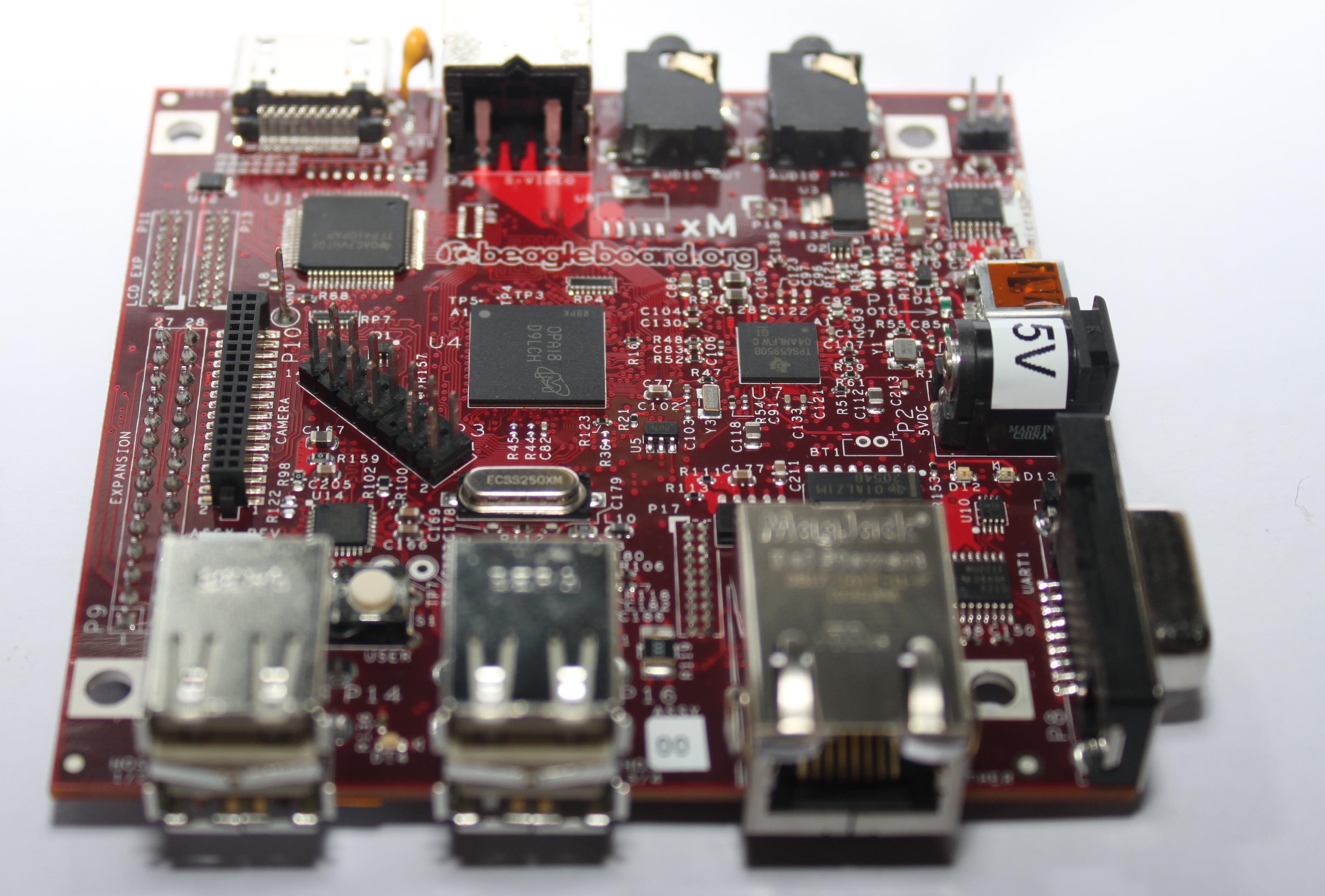 BeagleBoard xM